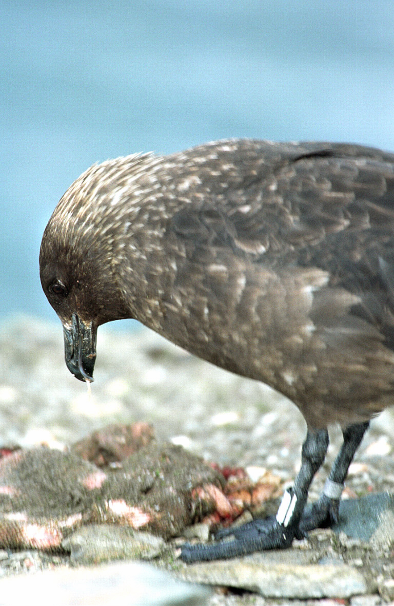 South Polar Skua, Hannah Point, Livingston Island: 62°39'S, 60°36'W, Antarctic Peninsula